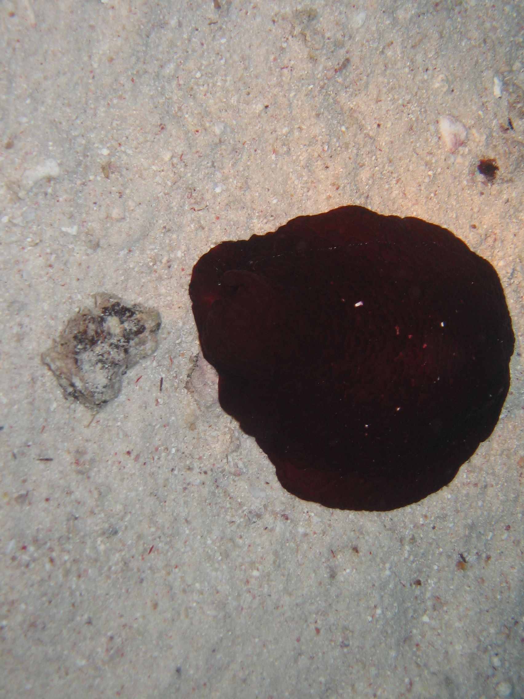 Forskals pleurobranchus, Pleurobranchus forskali